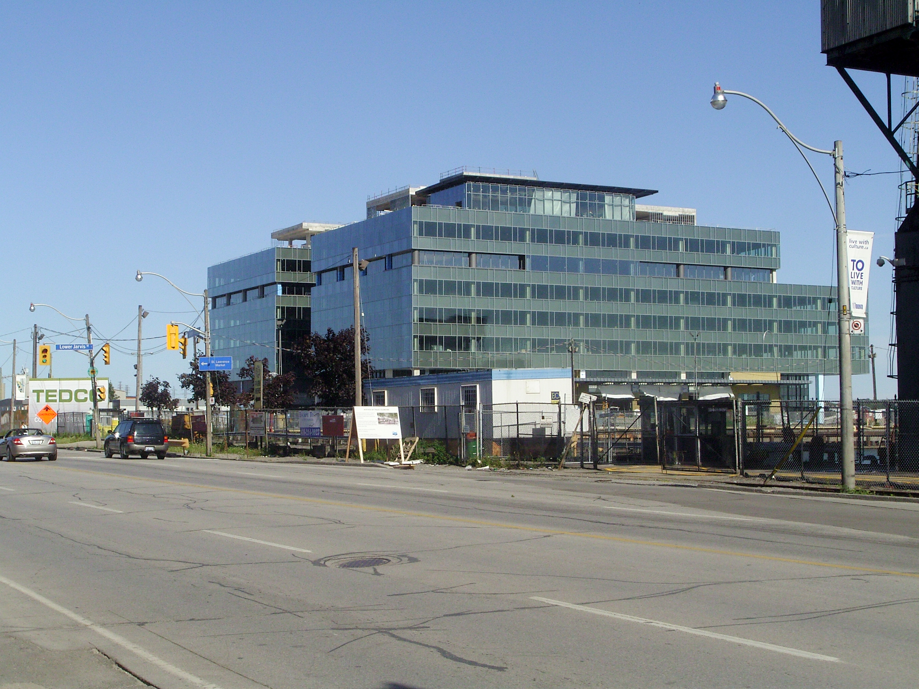 View of Corus Quay building under construction, August, 2009.